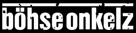 this is the logo of the band Böhse Onkelz